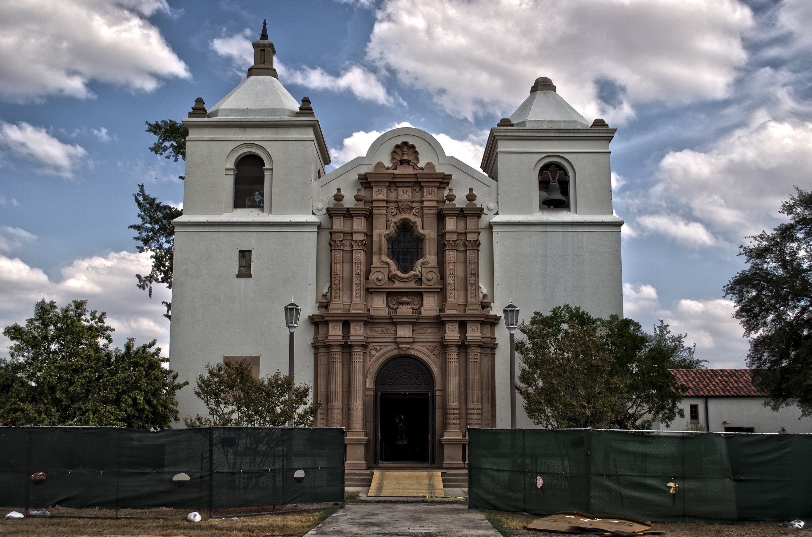 Universal City, TX Dedicated on June 30, 1930, Randolph Air Force Base has been a milestone for flying training operations for the United States Air Force. Randolph AFB is host to the Air Education and Training Command headquarters, 19th Air Force, Air Force Personnel Center, Air Force Manpower, Air Force Services Agency, Air Force Recruiting Command, the 902 Mission Support Group, the 502 Air Base Wing and the 12th Flying Training Wing.